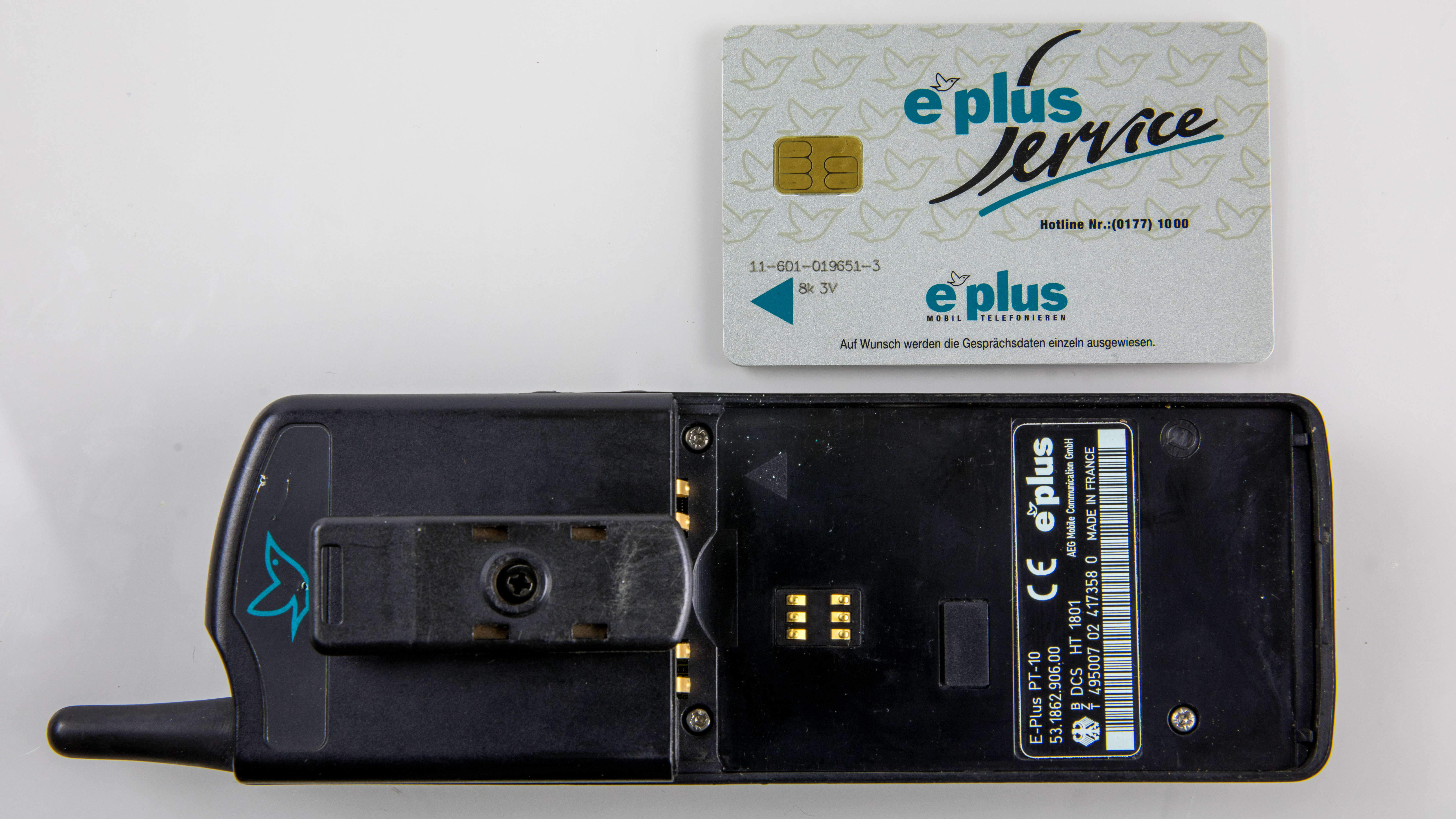 AEG Mobile Communication E-Plus PT-10